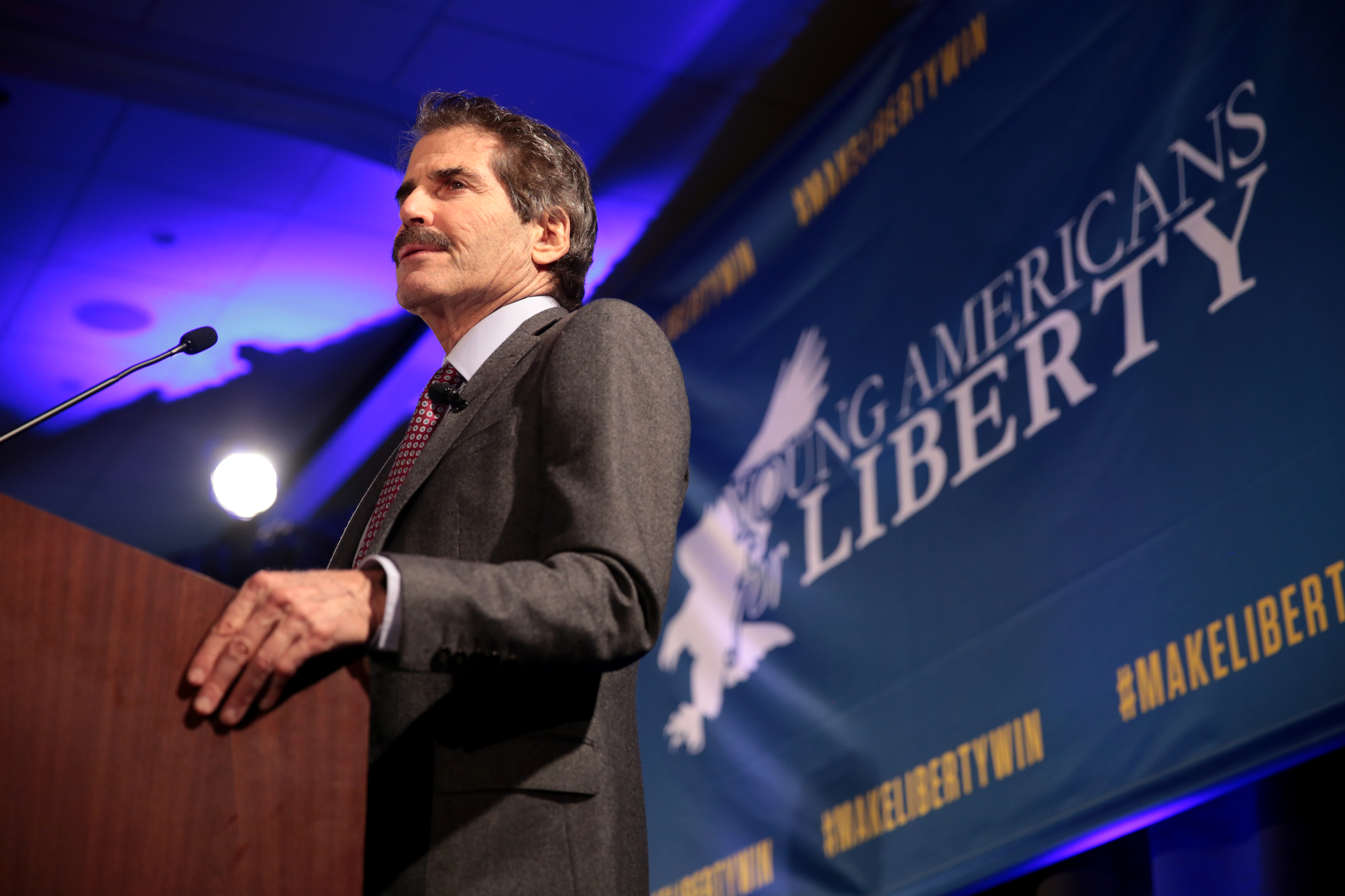 John Stossel speaking at an event in Teaneck, New Jersey.